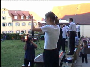 Saiteninstallation and Performance "Schloss Kapfenburg besaitet..." bei Lauchheim, Germany 2000